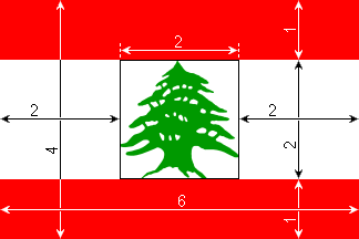 Construction sheet of the flag of Lebanon showing the proporitonality of the flag.